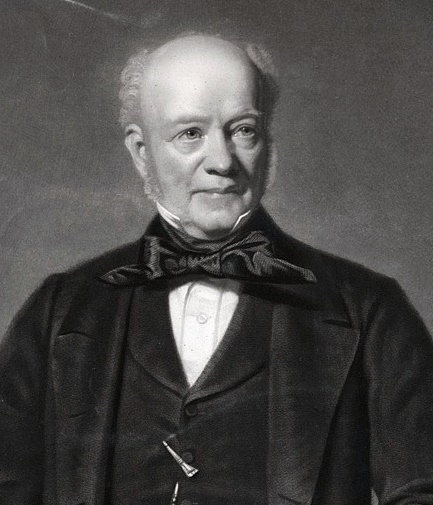 A resized variant from an image found on Wikimedia, "File:Sir George Simpson.jpg"